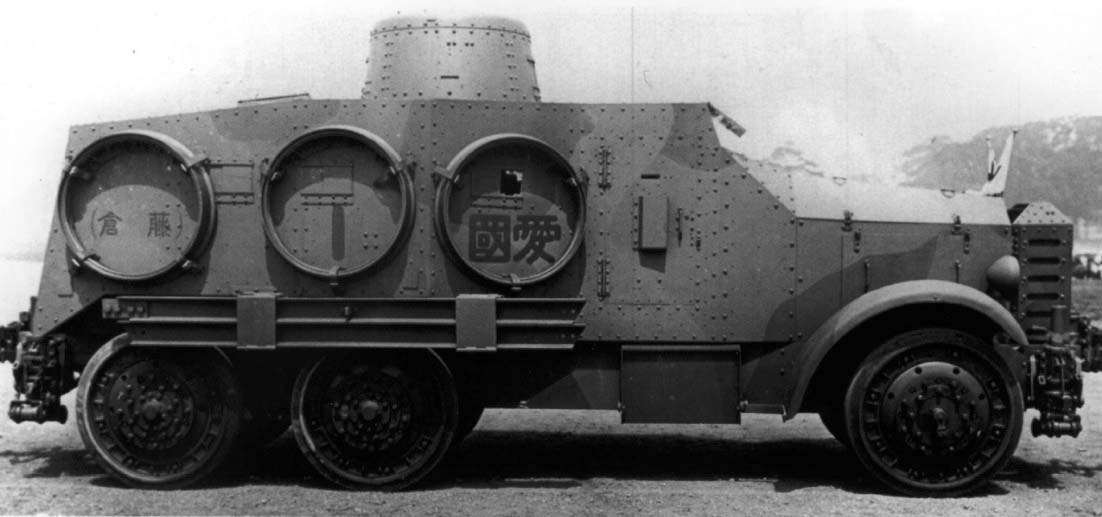 photo of vehicle